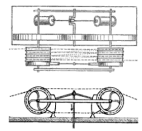 Chain boat drive mechanism (drum winch)